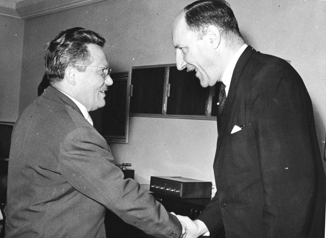 Edvard Kardelj and Joseph Luns